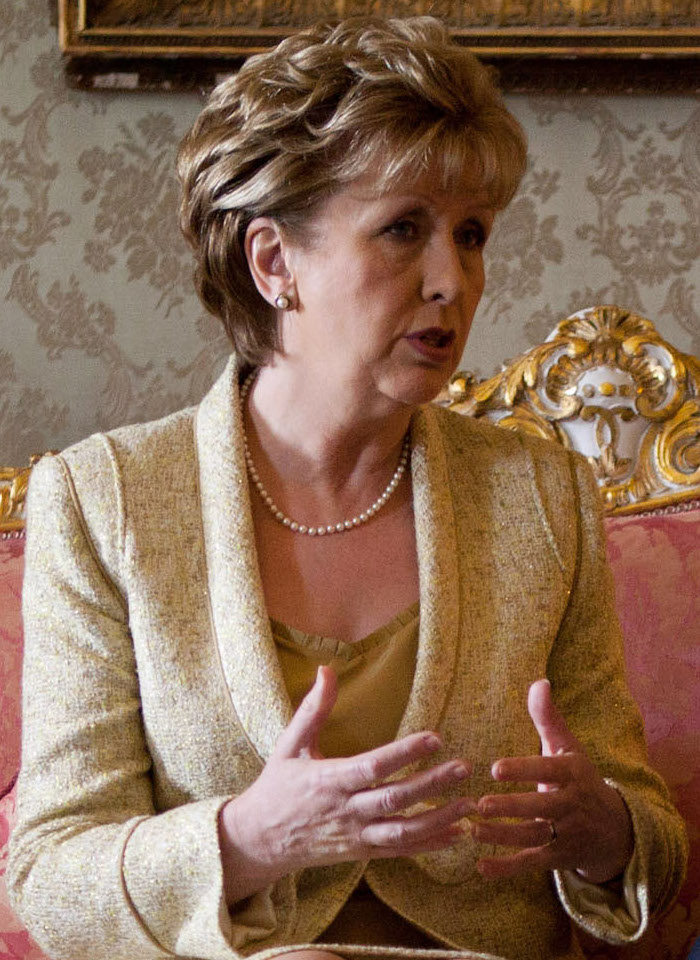 President Barack Obama talks with Irish President Mary McAleese during a courtesy call in the Drawing Room of the President’s residence in Dublin, Ireland, May 23, 2011. (Official White House Photo by Pete Souza)